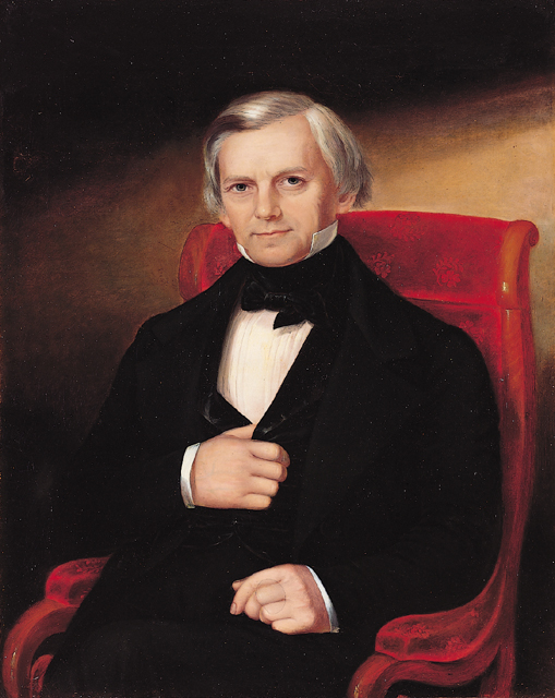 Portrait of James Grant Cortland